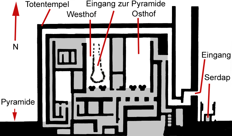 Mortuary temple of the Djoser pyramid (Totentempel der Djoser-Pyramide)